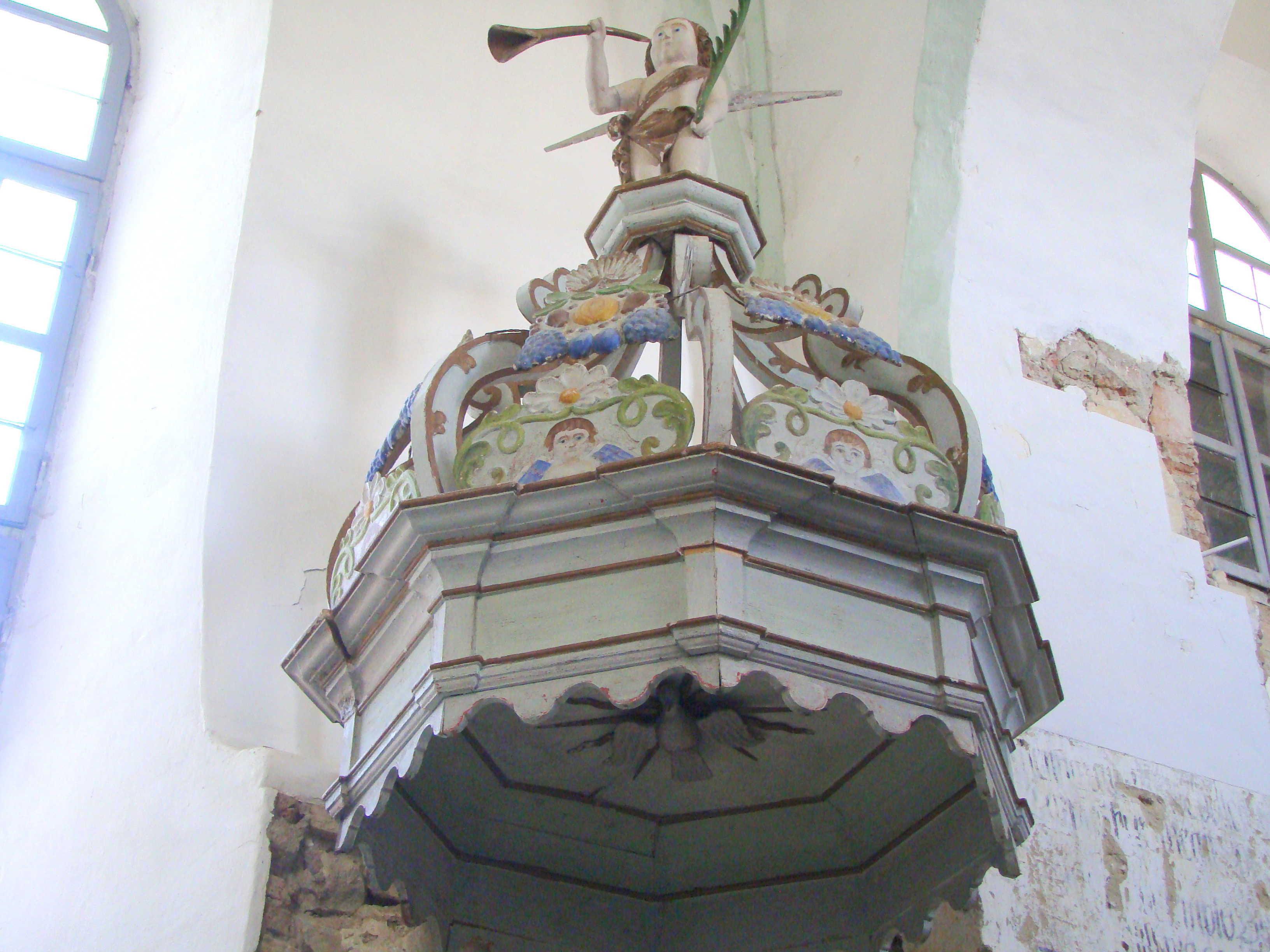 Fortified church in Bunești, Brașov County, Romania